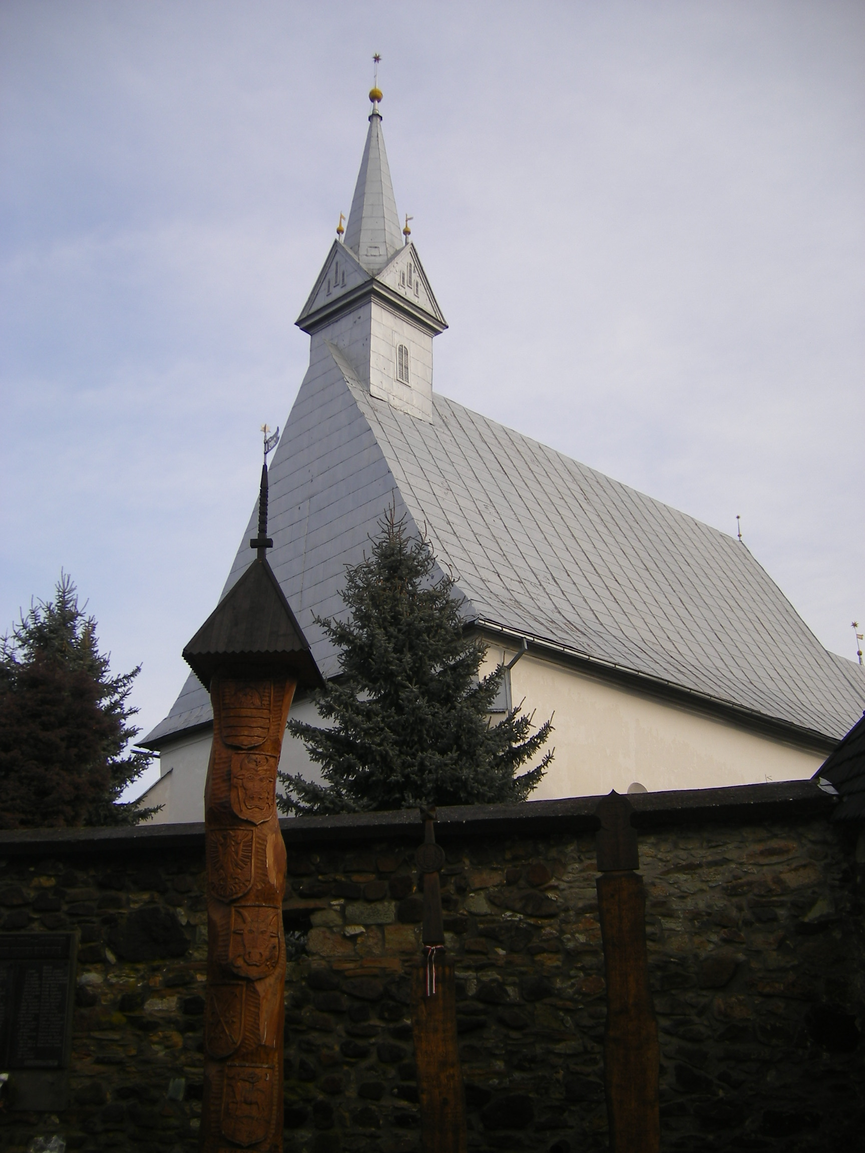 Visk (Vyshkovo) reformated church